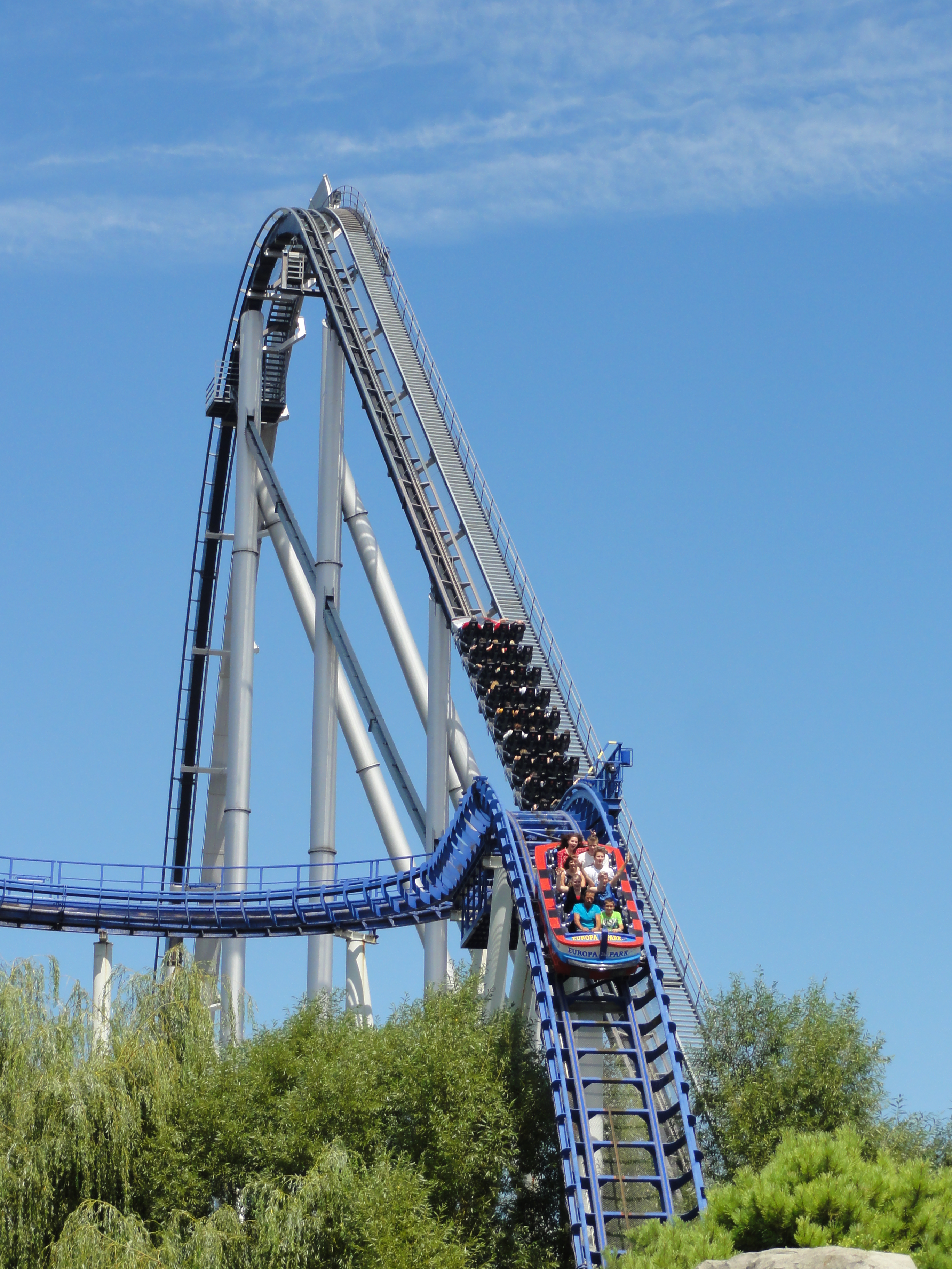 Silver Star, Europa-Park, Rust, Baden-Württemberg, Germany.